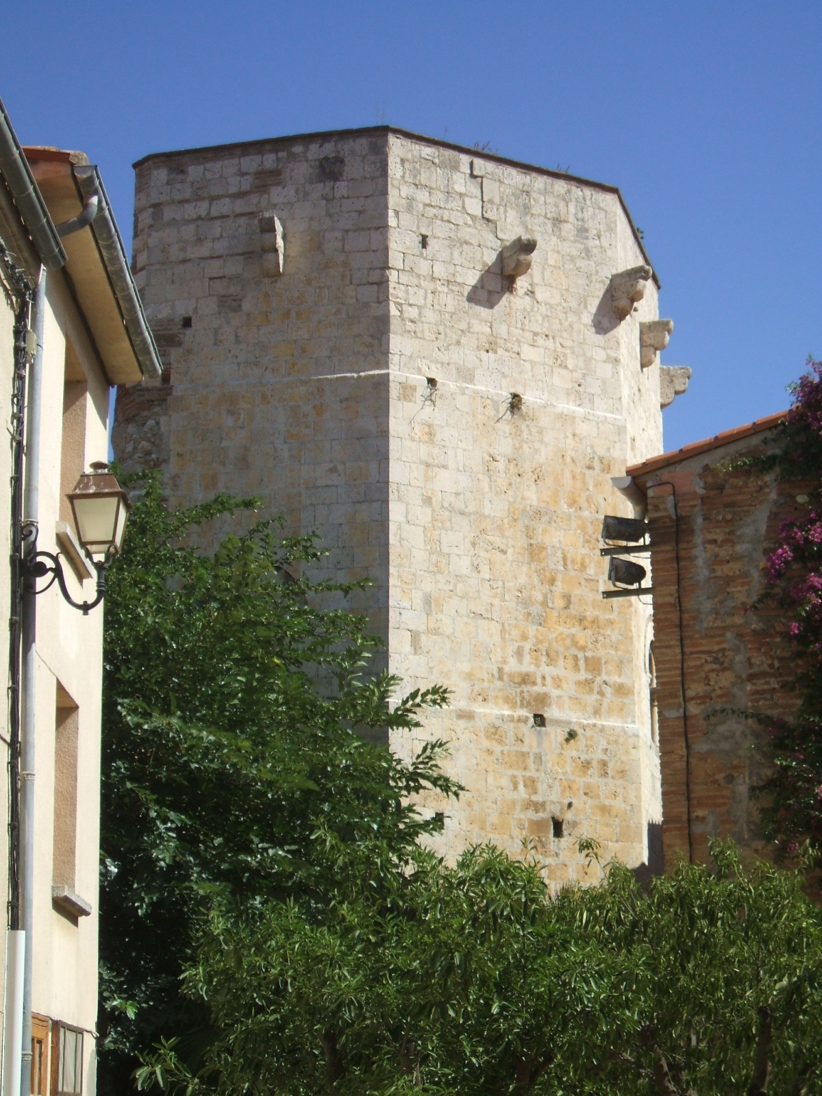 Sainte-Marie-la-Mer : Sainte-Marie church, Romanesque chevet, southern view